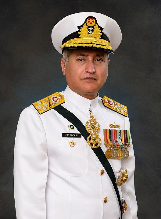 Chief of Naval Staff of Pakistan, Admiral Zafar Mahmood Abbasi